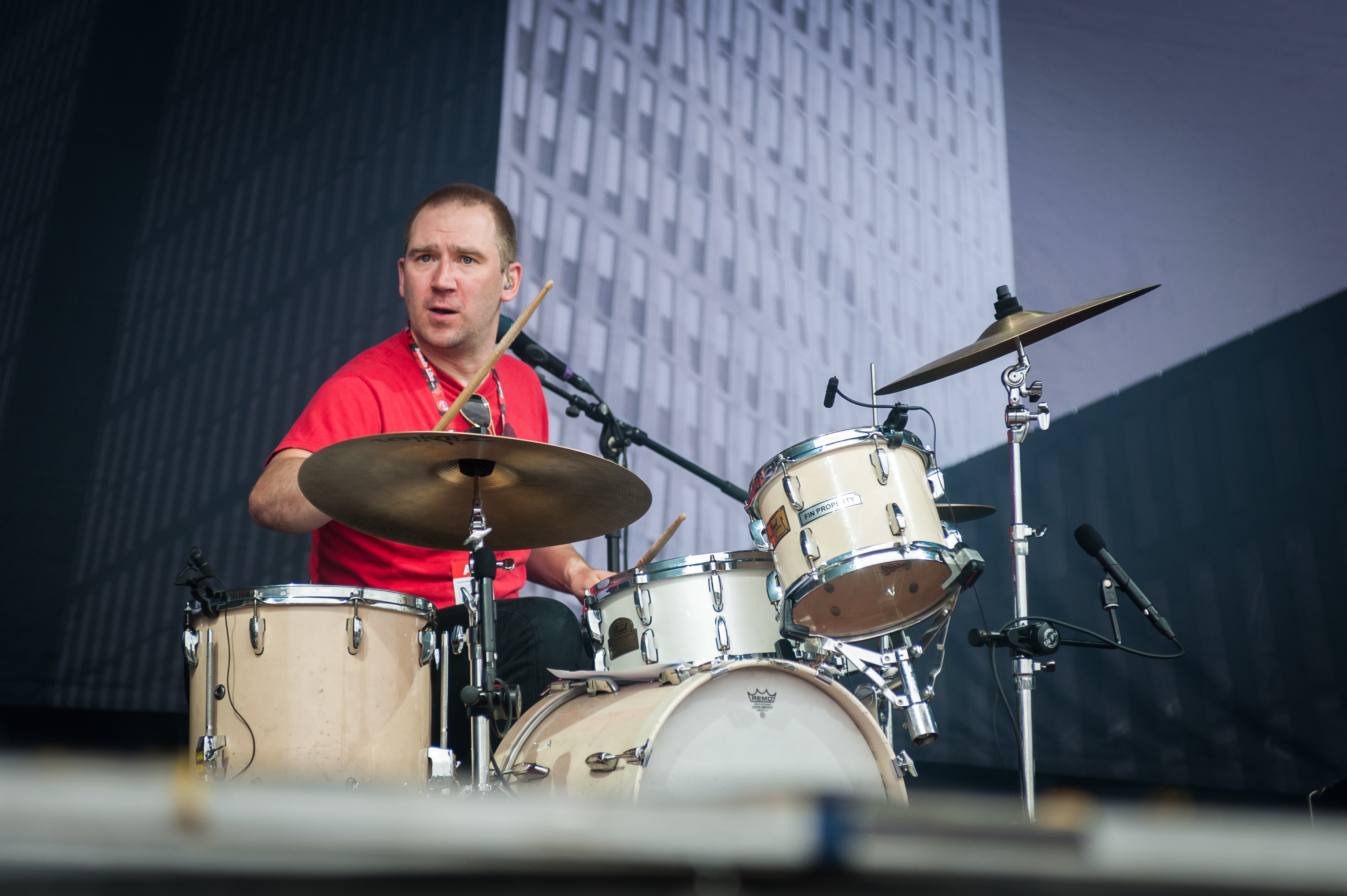 Finnish pop-rock-folk band Scandinavian Music Group performing at the Ilosaarirock festival in Joensuu, Finland.